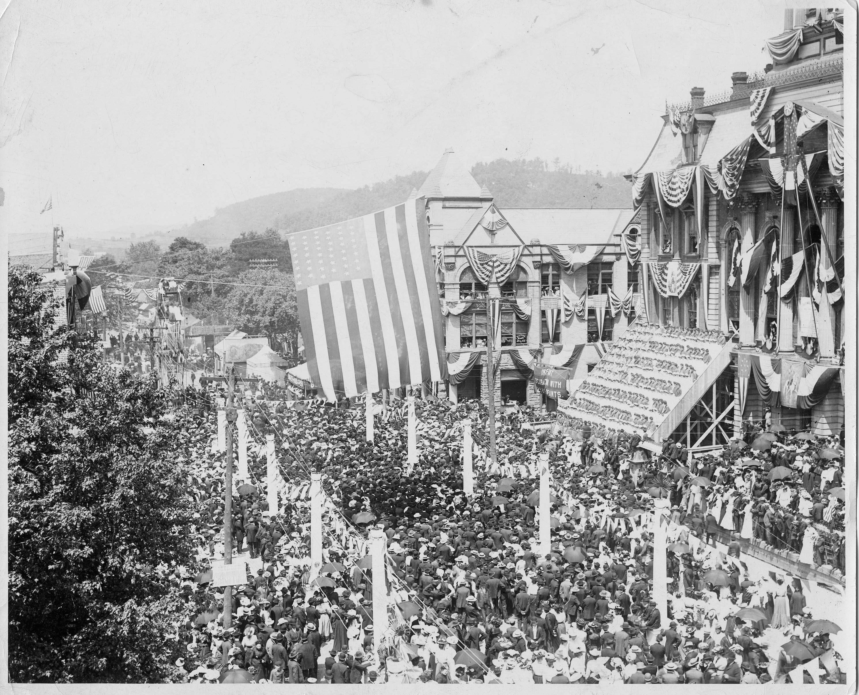 The Indiana County Courthouse during the county's bicentennial celebration in 1903